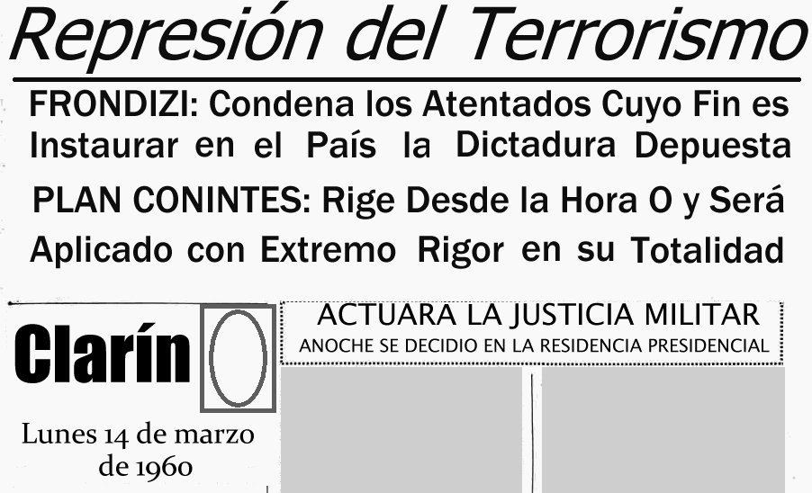 Headlines of newspaper Clarin on April 14th, 1960. Conintes Plan. Argentina. By President Arturo Frondizi. Own design.